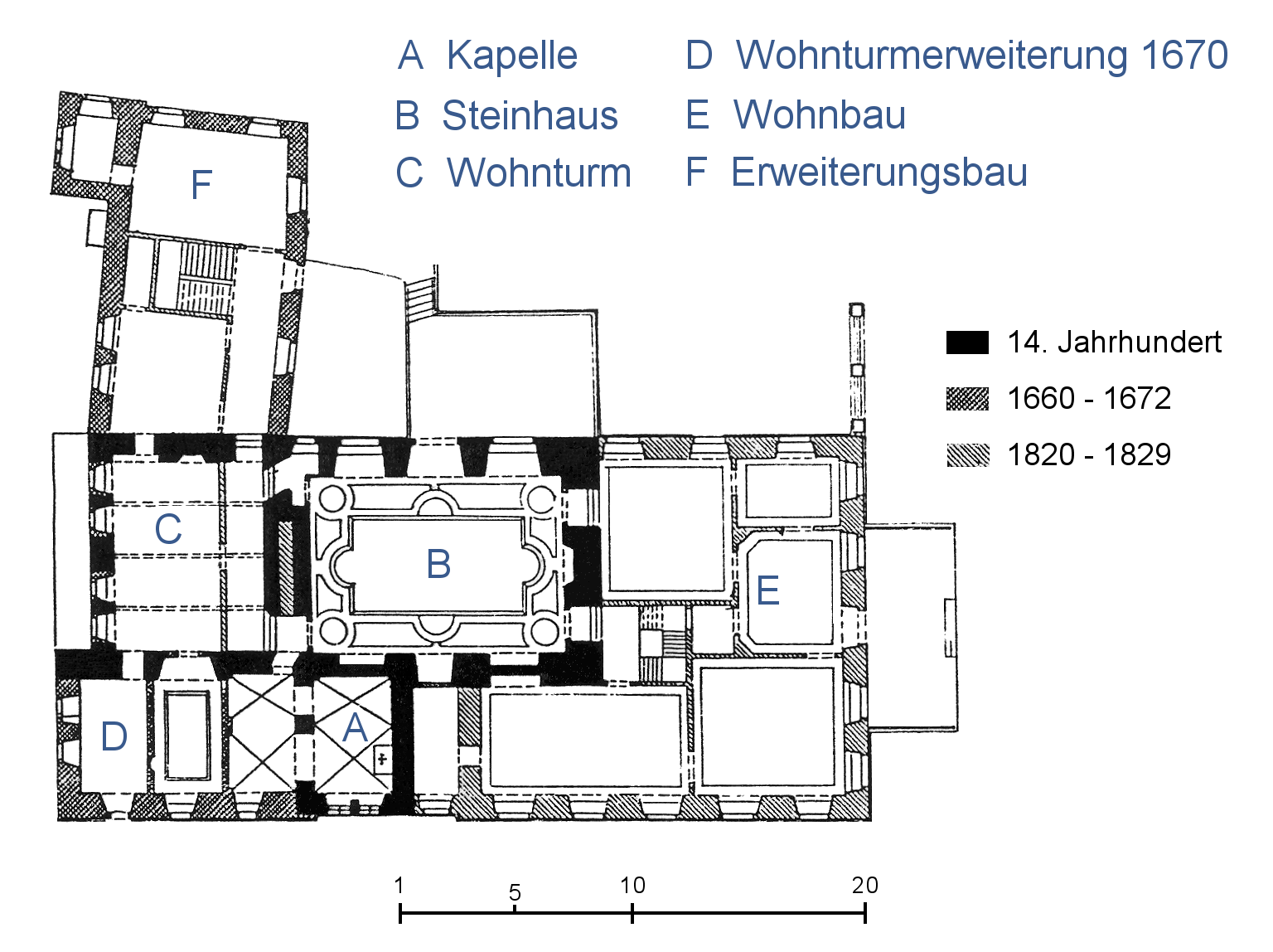 Floor plan of Schellenberg Castle in Essen, Germany